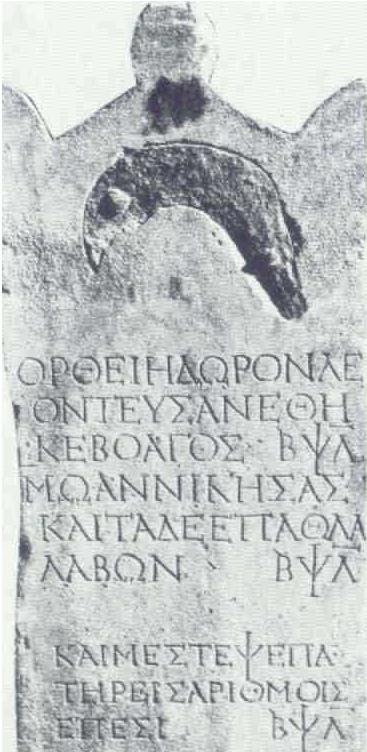 headstone was found above the Temple of Artemis at Sparta Orthia, early example of isopsephy. It says: ΟΡΘΕΙΗ ΔΩΡΟΝ ΛΕΟΝΤΕΥΣ ΑΝΕΘΗΚΕ ΒΟΑΓΟΣ ΒΨΛ ΜΩΑΝ ΝΙΚΗΣΑΣ ΚΑΙ ΤΑΔΕ ΕΠΑΘΛΑ ΛΑΒΩΝ ΒΨΛ ΚΑΙ Μ ΕΣΤΕΨΕ ΠΑΤΗΡ ΕΙΣΑΡΙΘΜΟΙΣ ΕΠΕΣΙ ΒΨΛ Isopsephic elegiac verse, votive stele for a boy who won a competition in singing. Each verse adding up to ΄ΒΨΛ, that is 2730.